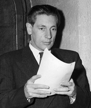 Navyman Ernst Hilding Andersson was one of the first Swedish, modern great spies. He was revealed in 1951 after provided information on the Navy to the Soviet Union. Sentenced to life in prison.